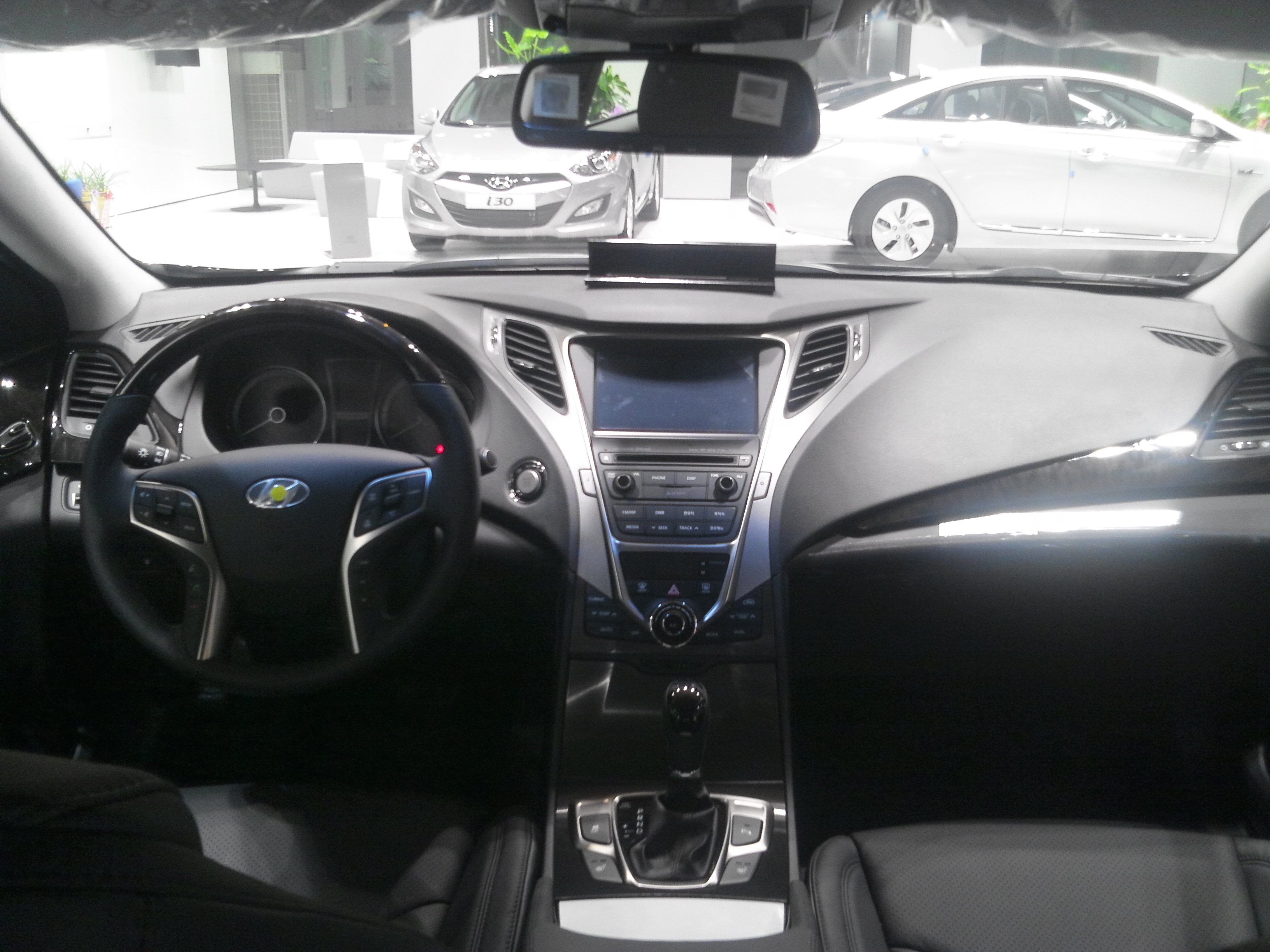 Interior of Hyundai Grandeur.